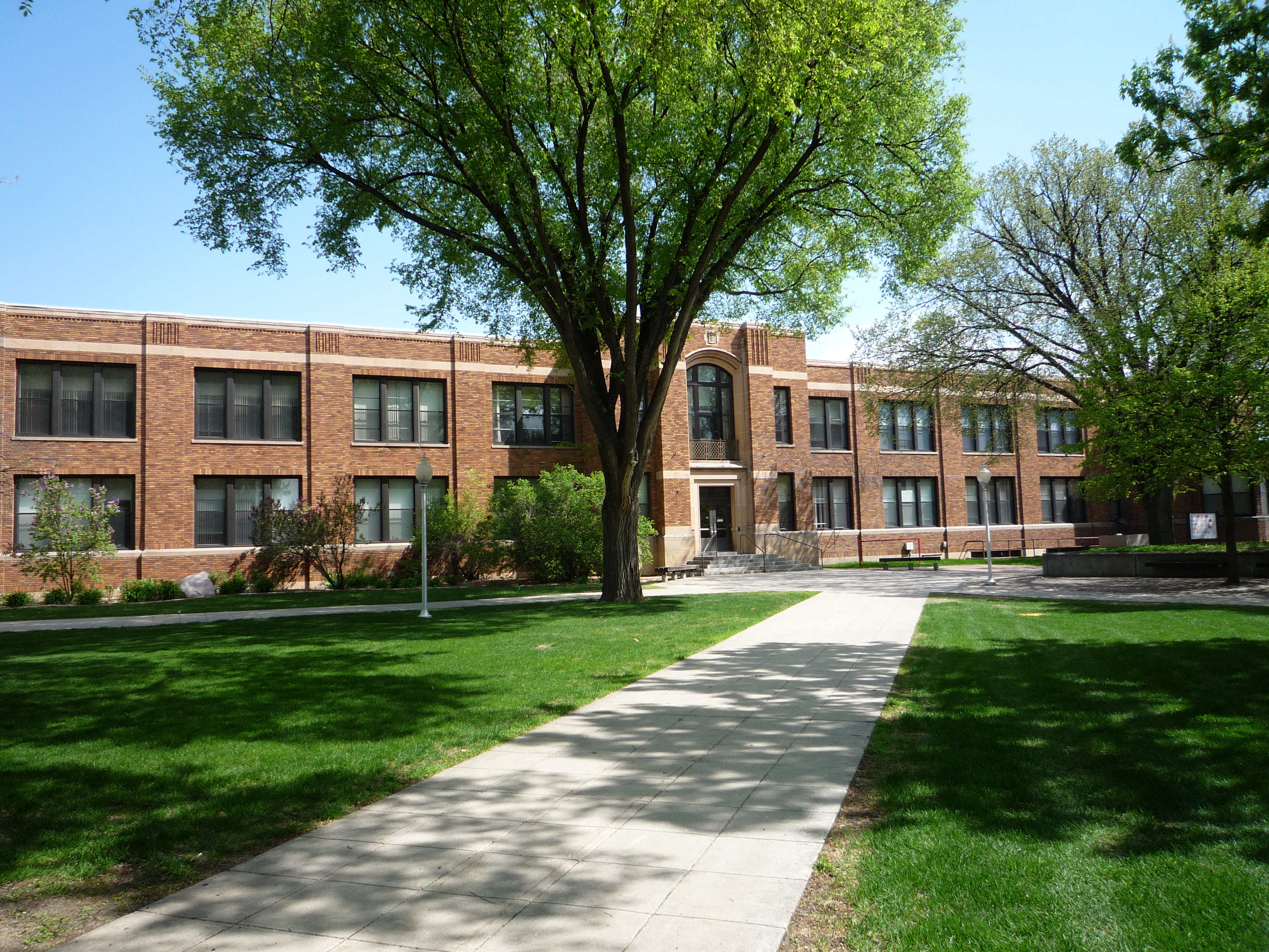 Lommen Hall, the oldest building on the Minnesota State University, Moorhead (Moorhead State) campus, Moorhead, Minnesota, USA.